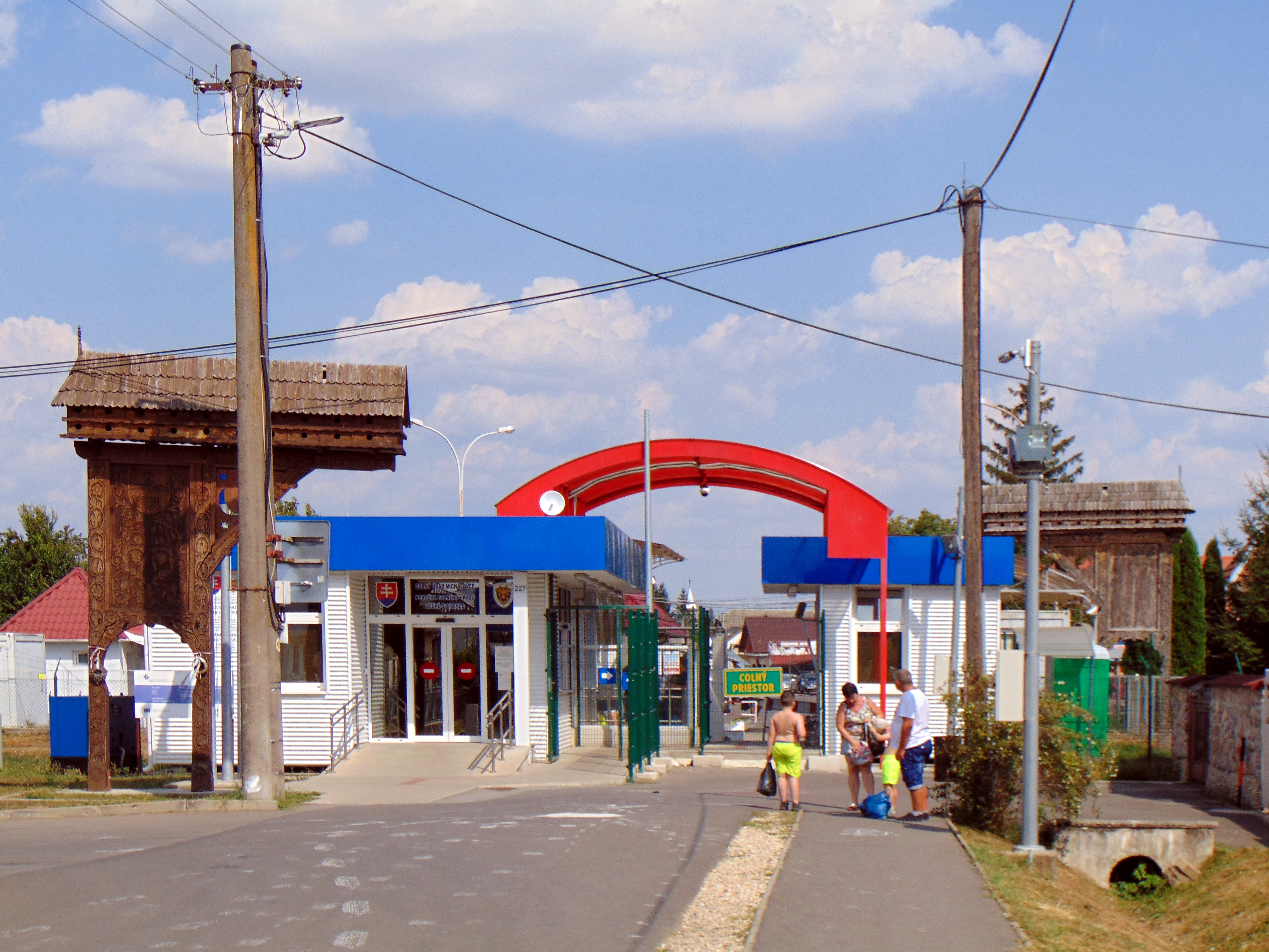 Slovakia-Ukraine border crossing in the village of Veľké Slemence/Nagyszelmenc.